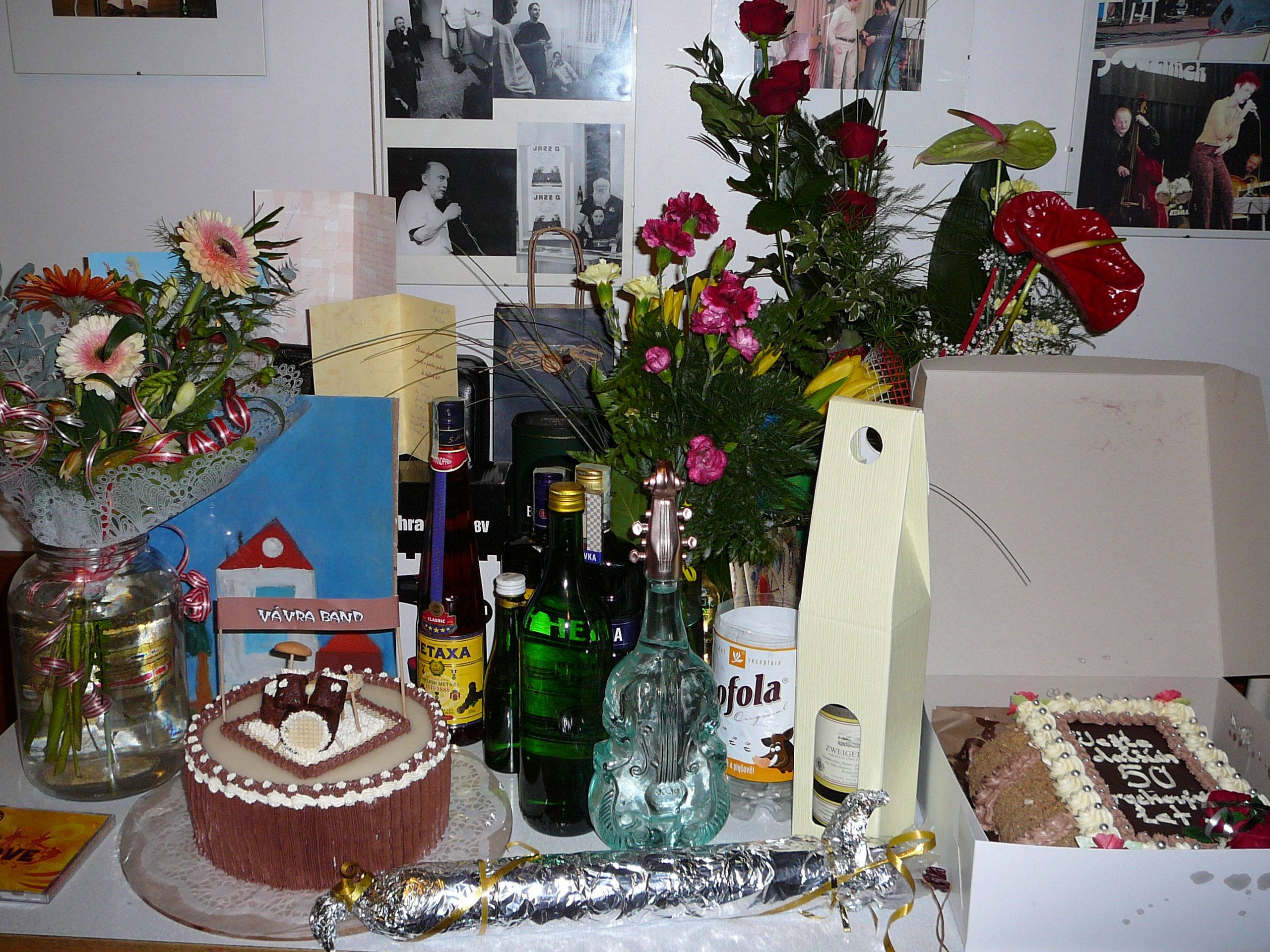 A lot of birthday presents